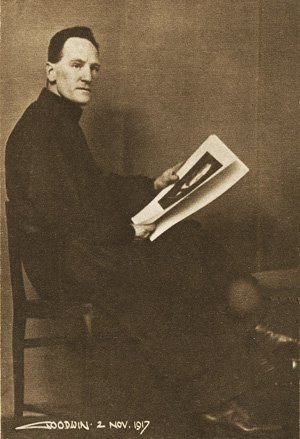 Selfportrait